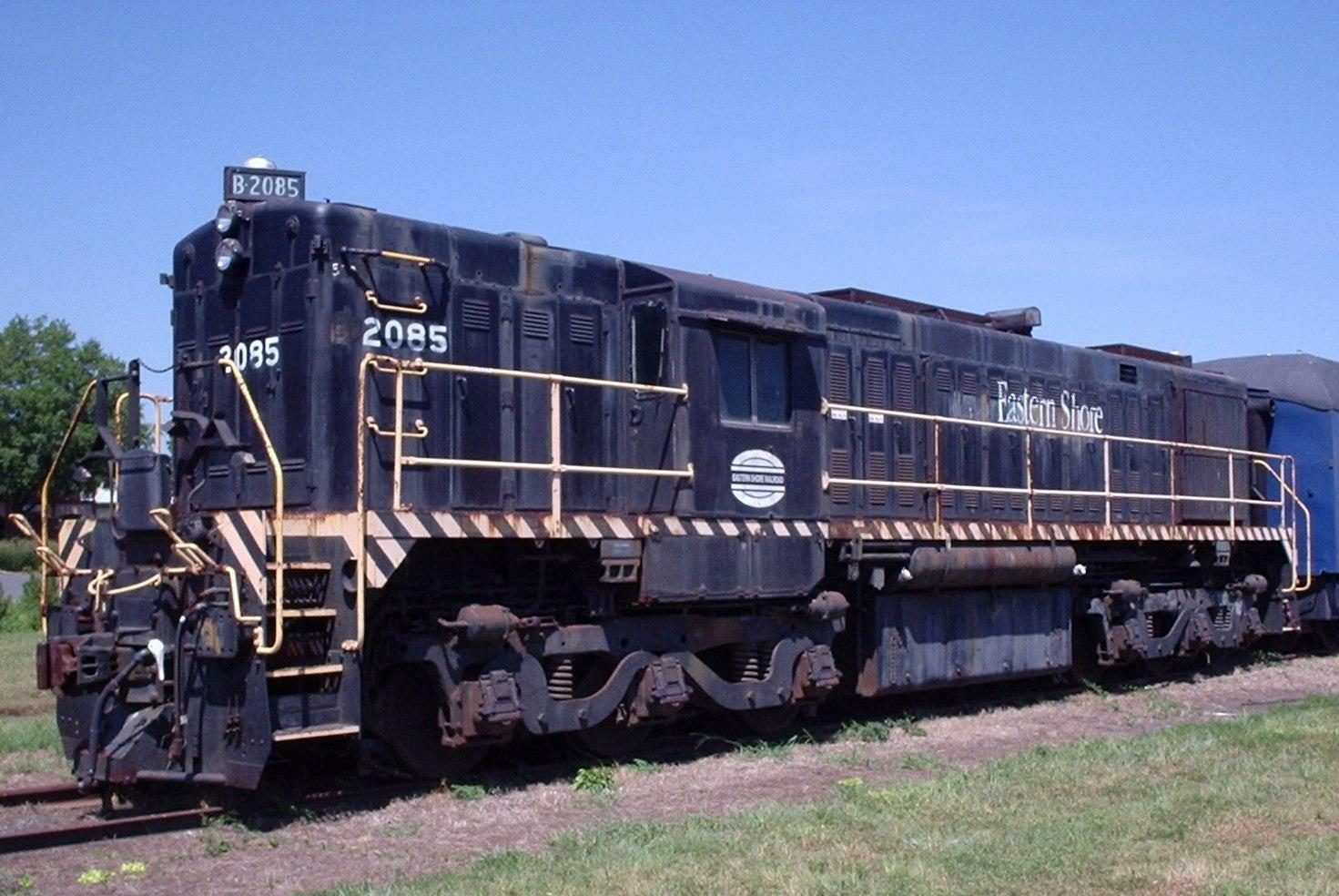 Photo of Alco MRS-1 on Bay Coast Railroad by William J. Grimes This image is watermarked to give credit to the photographer, just as an artist signs their work!